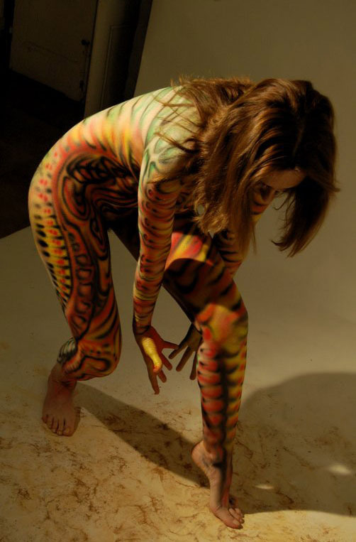 Bodypainting Asociación de España, author Mortagon